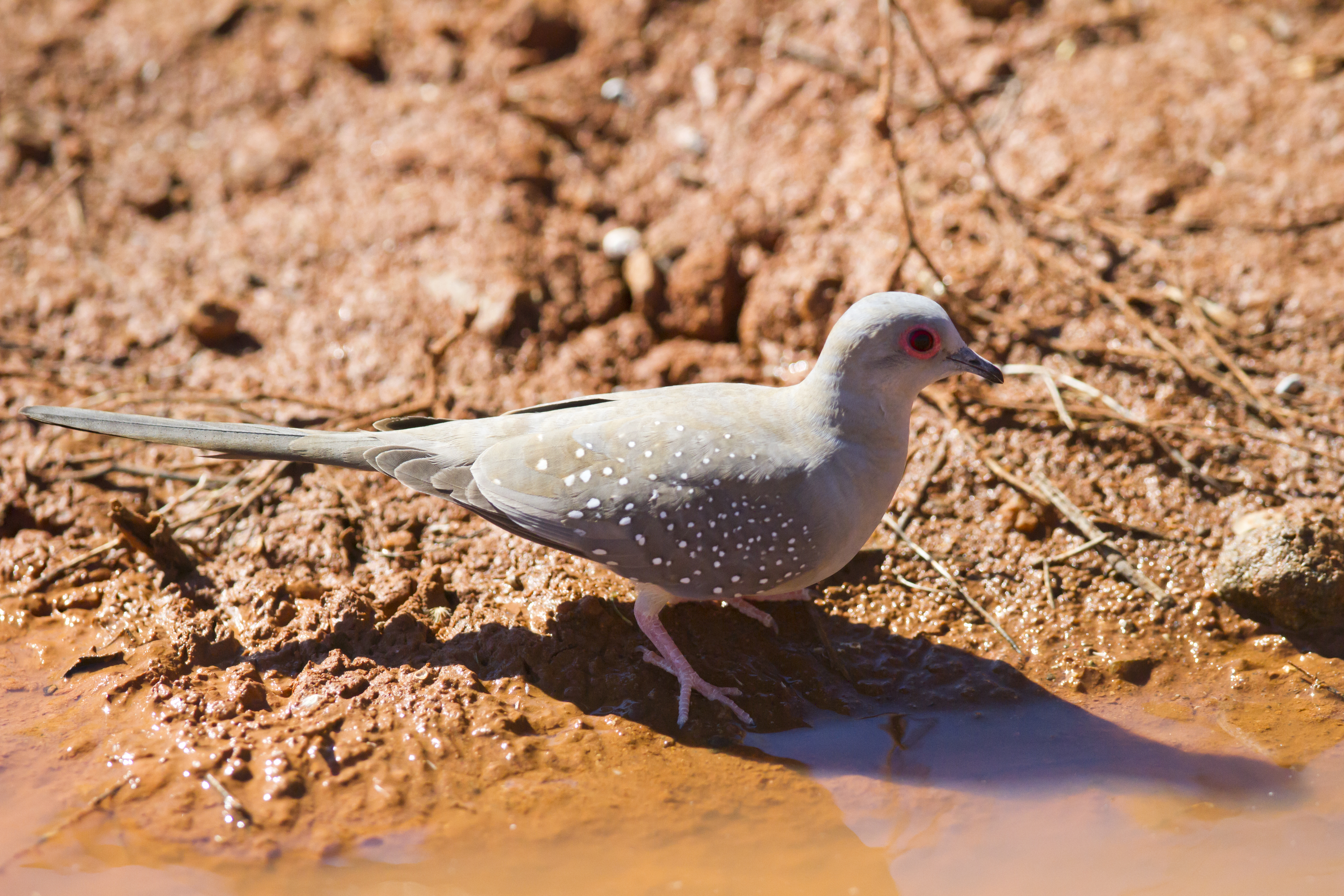 A Diamond Dove drinking near Karratha, Pilbara, Western Australia, Australia.